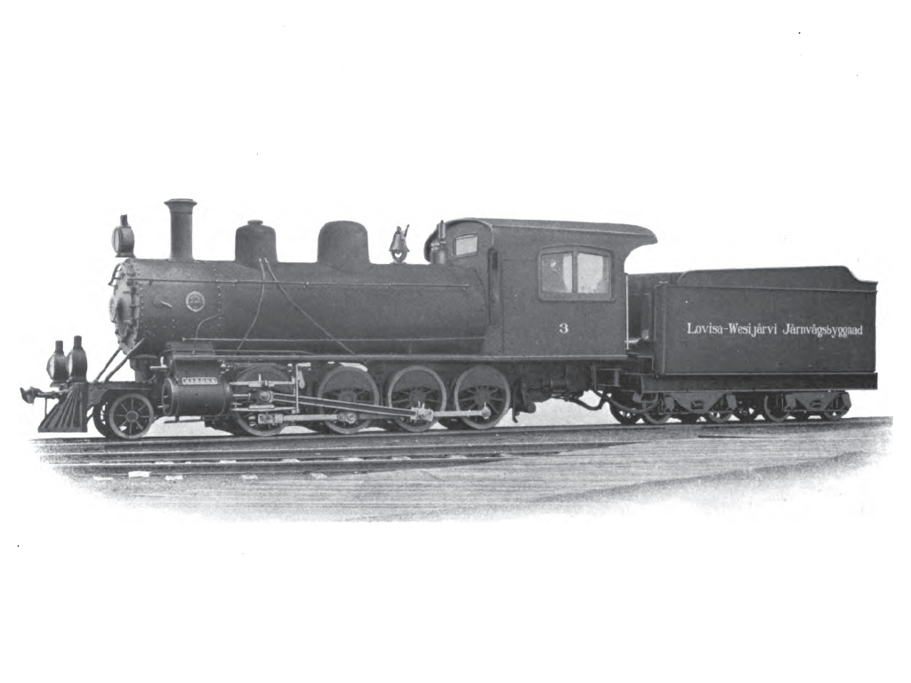 A Consolidation (2-8-0) -type narrow gauge steam engine LWR3. Built in 1899 by the Brooks Locomotive Works for the Lovisa-Wesijarvi Railway of Finland.